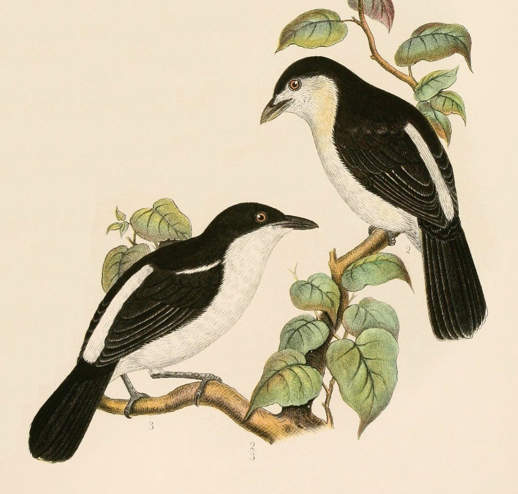 ♂, ♀ Dryoscopus cubla (Shaw, 1809) subsp. affinis (G.R.Gray, 1837) 2. Laniarius orientalis Sws. = Dryoscopus orientalis = ♀ Dryoscopus affinis= ♀ Dryoscopus cubla affinis [1], or [2] 3. Laniarius salimae Nob. = ♂ Dryoscopus cubla affinis [3]